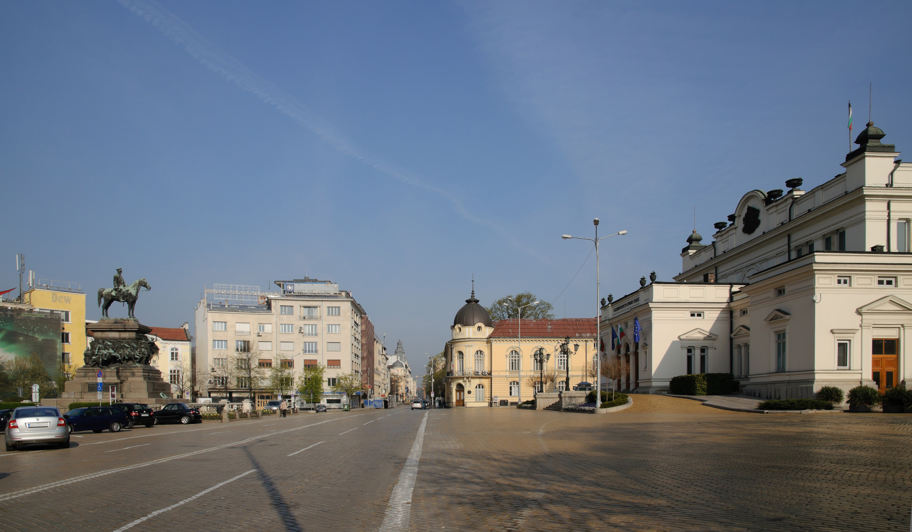 Tsar Liberator boulevard at Parliament square in Sofia, Bulgaria.